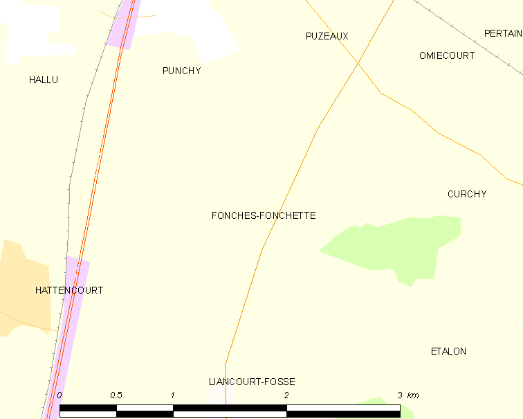 Map of French municipality Fonches-Fonchette